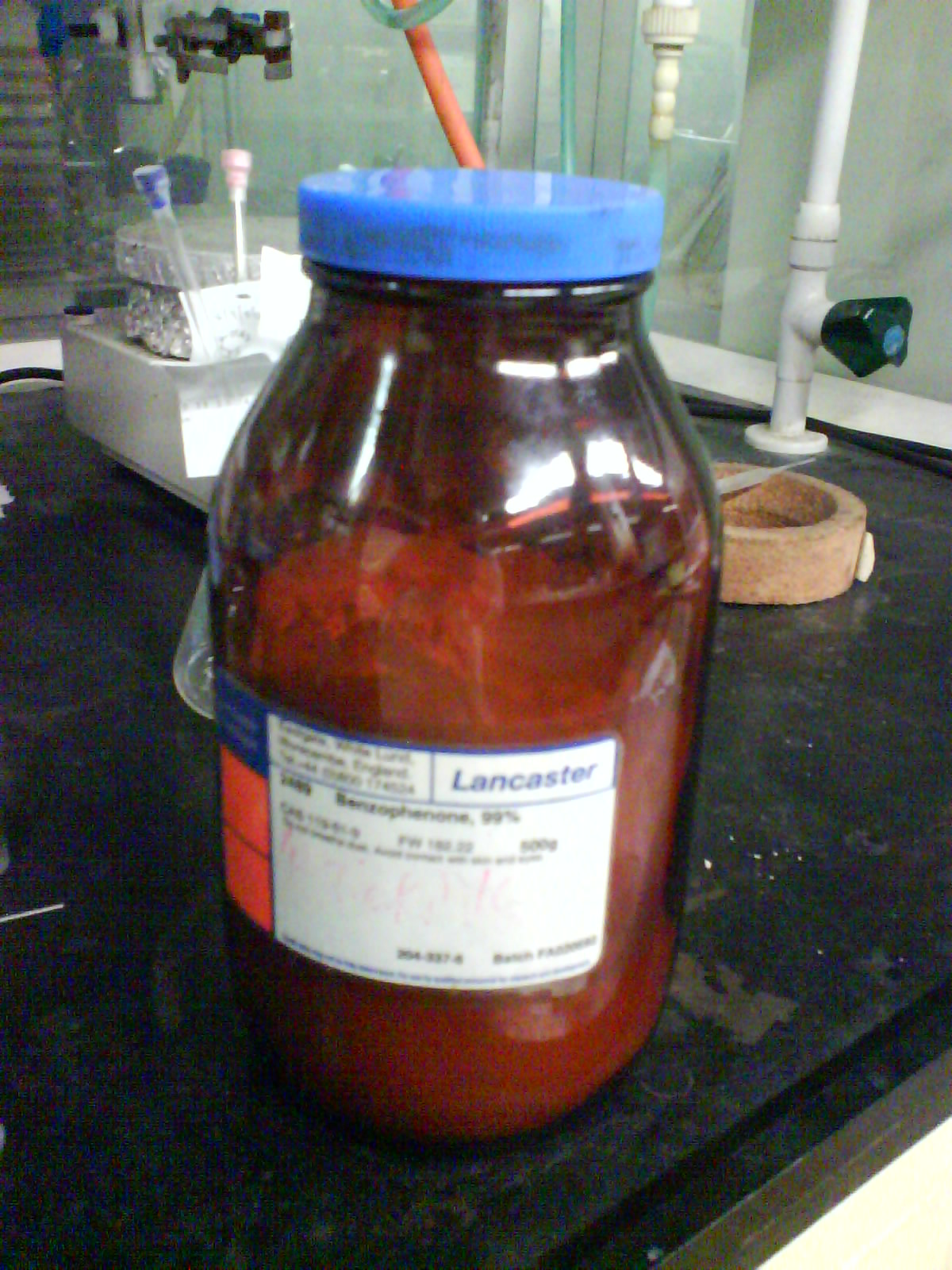 Benzophenone bottle